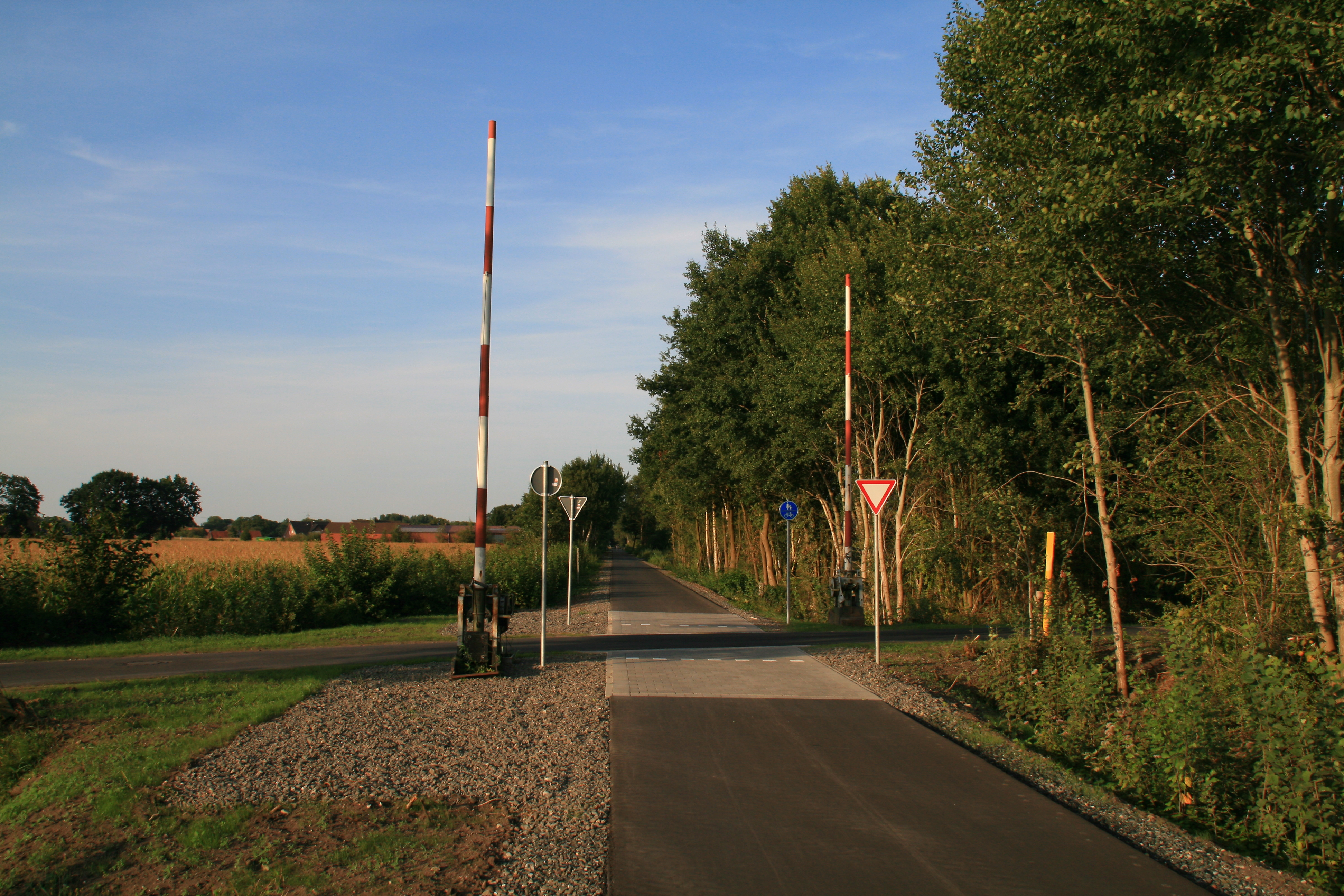 Biketrail on the ex-railroad from Rheine to Coesfeld.